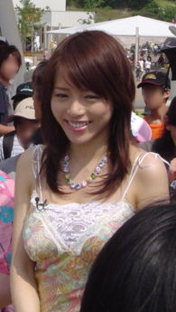 Yumiko Shaku, she is a actress and tarento in Japan. This photograph is taken at the Expo 2005 on August 2, 2005.